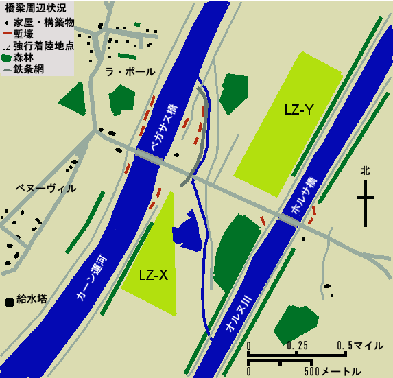 Operation Tonga abstract map added ja's caption, based on User:John N.'s work Image:Operation Coup-de-Main - Karte.png